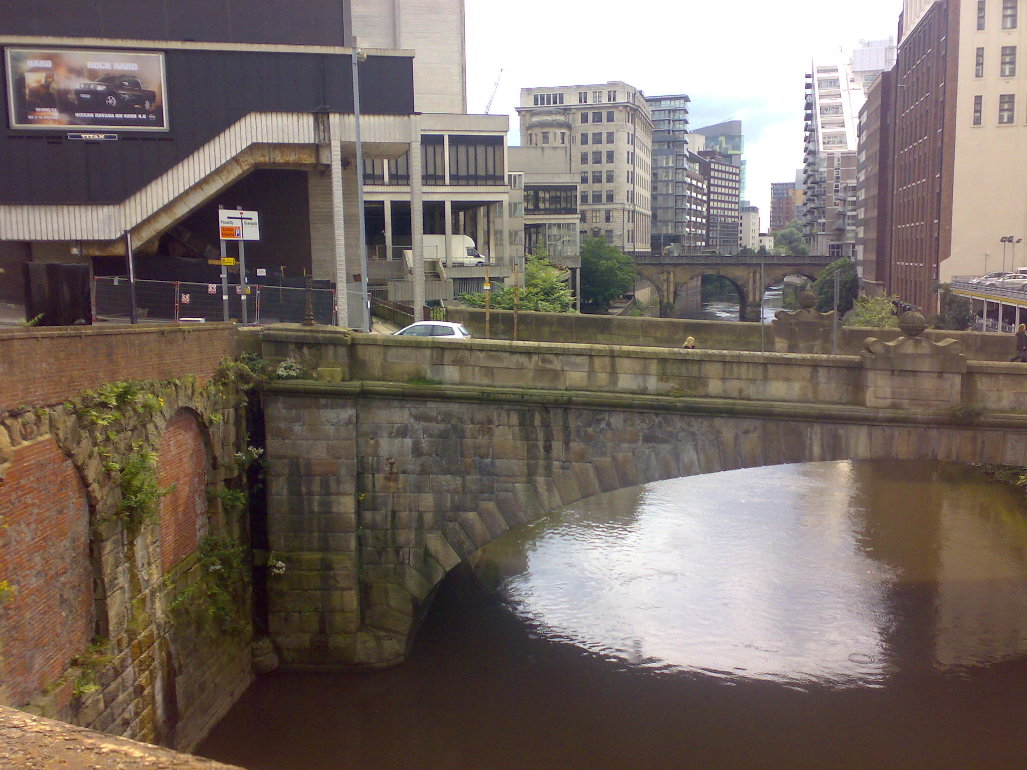 Cathedral Landing Stages as viewed from Cathedral Approach. Victoria Bridge is the main bridge in the image, the stages are on the left.